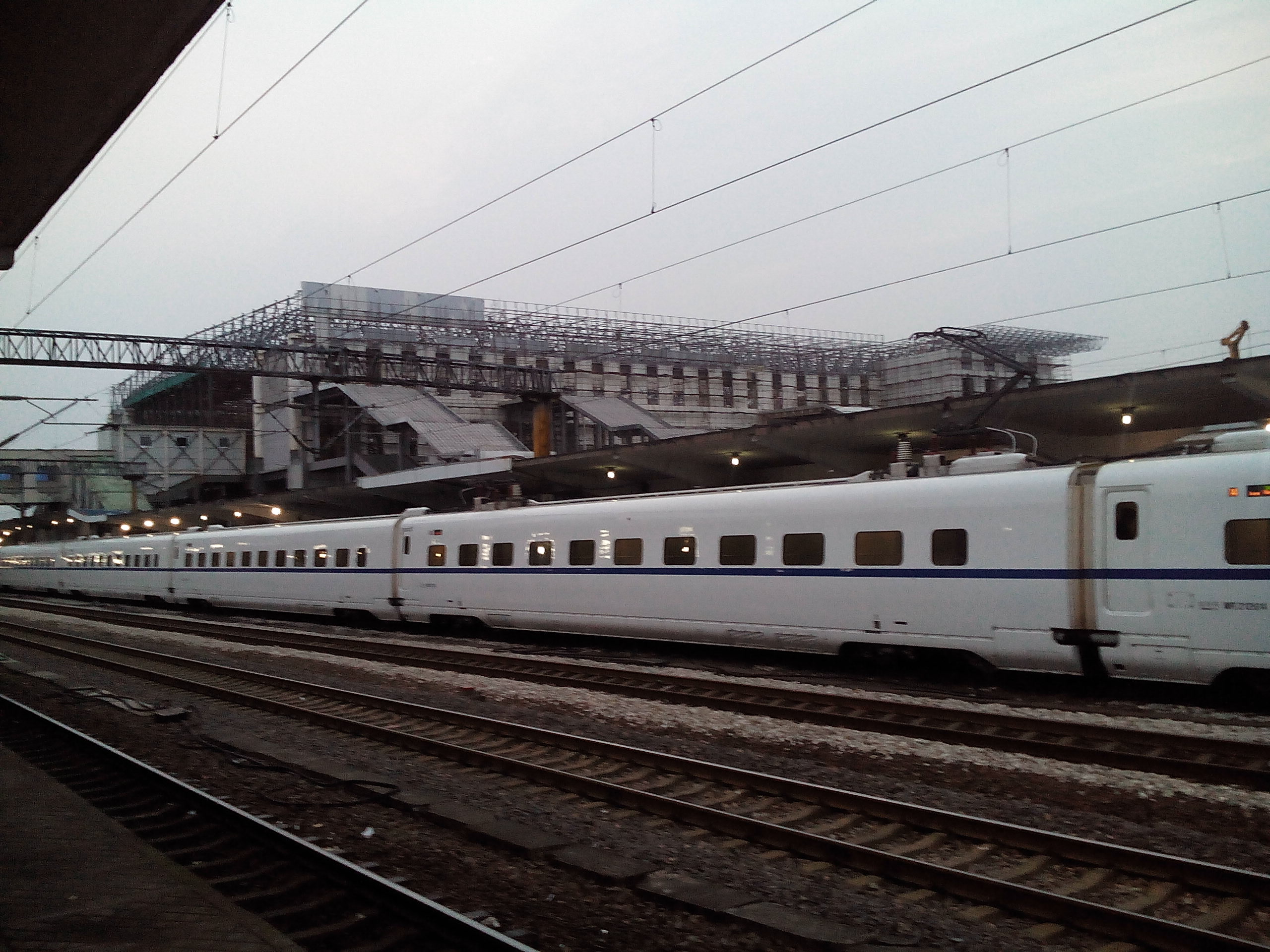 201406 D5664 at Jinhuaxi Station